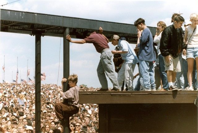 1995 Washington, DC riots during a free lunchtime concert by The Cranberries